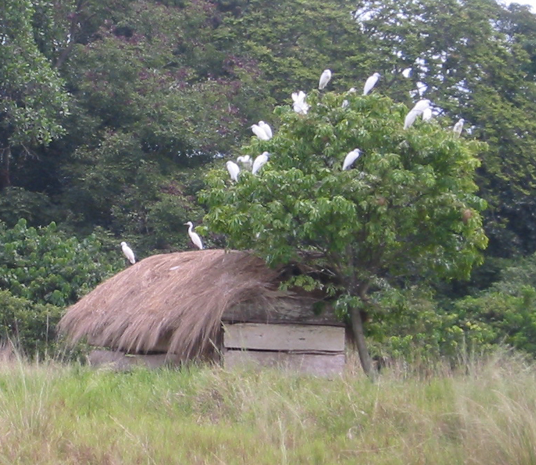 Egrets and hut, Bugala Island, Ssese Archipelago, Lake Victoria, Uganda.